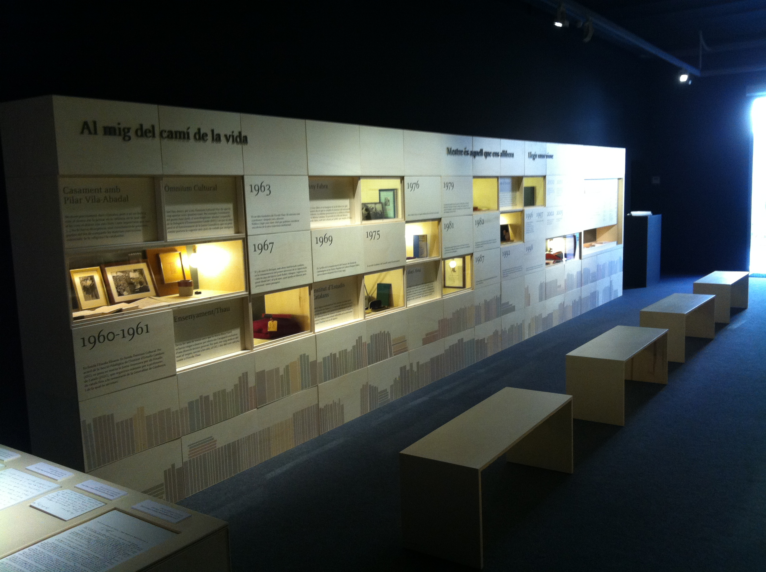 Llegir com viure Joan Triadú exhibit at Palau Robert in Barcelona (2013)